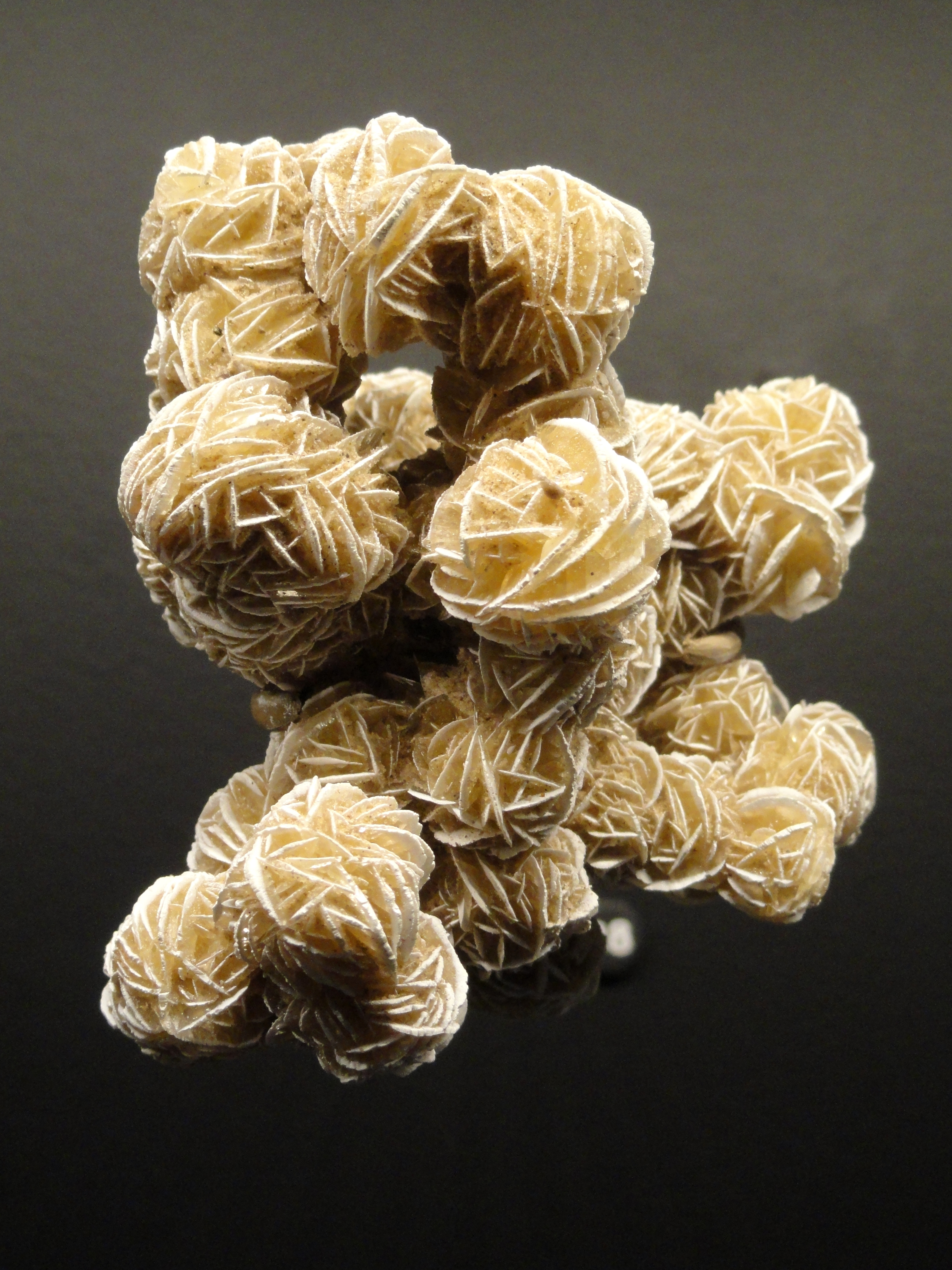 Exhibit in the Natural History Museum of Utah, Salt Lake City, Utah, USA. This item is old enough so that it is in the public domain.